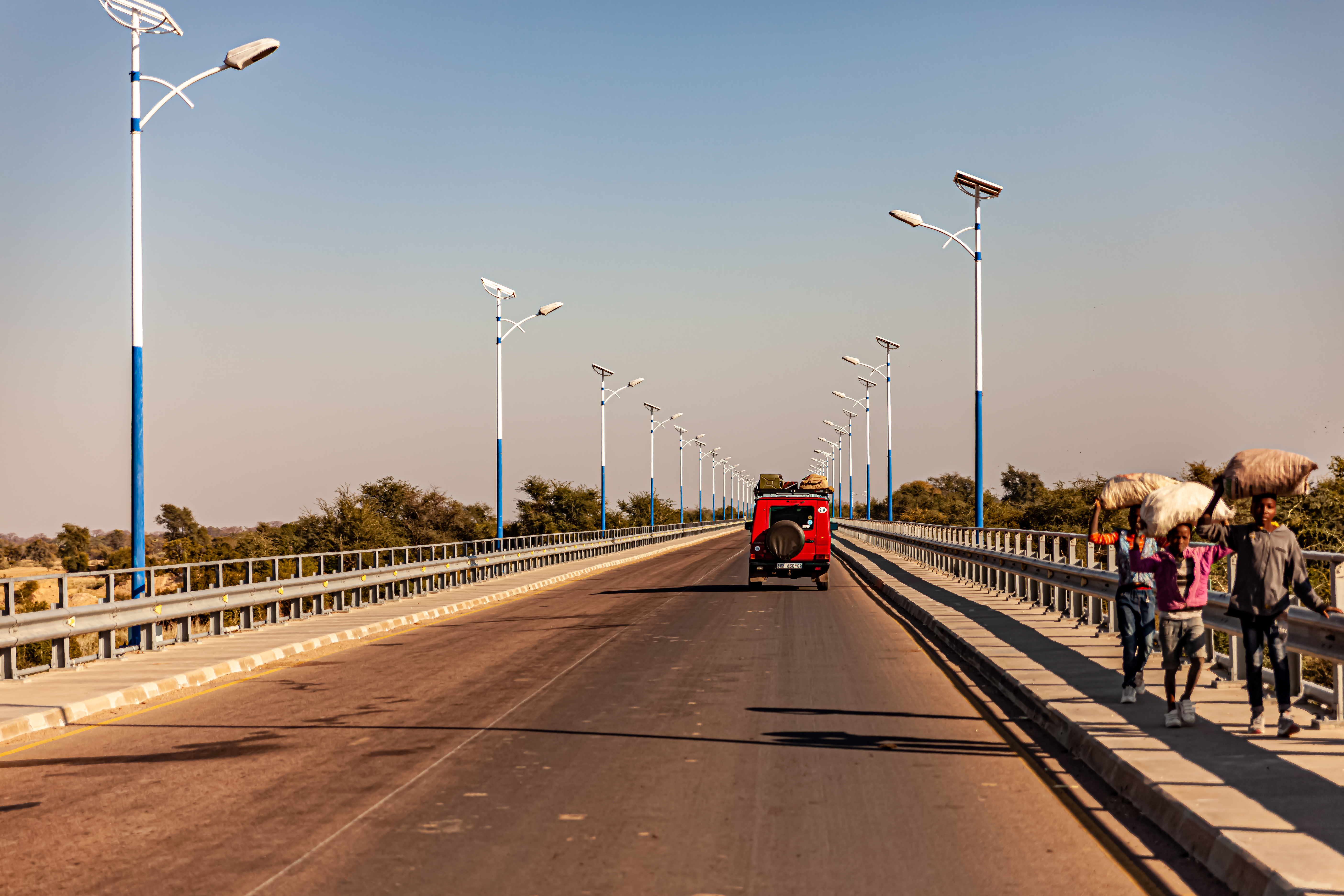 People walking over the bridge to humbe, no cheap public transport This is an image with the theme "Africa on the Move or Transport" from: Angola